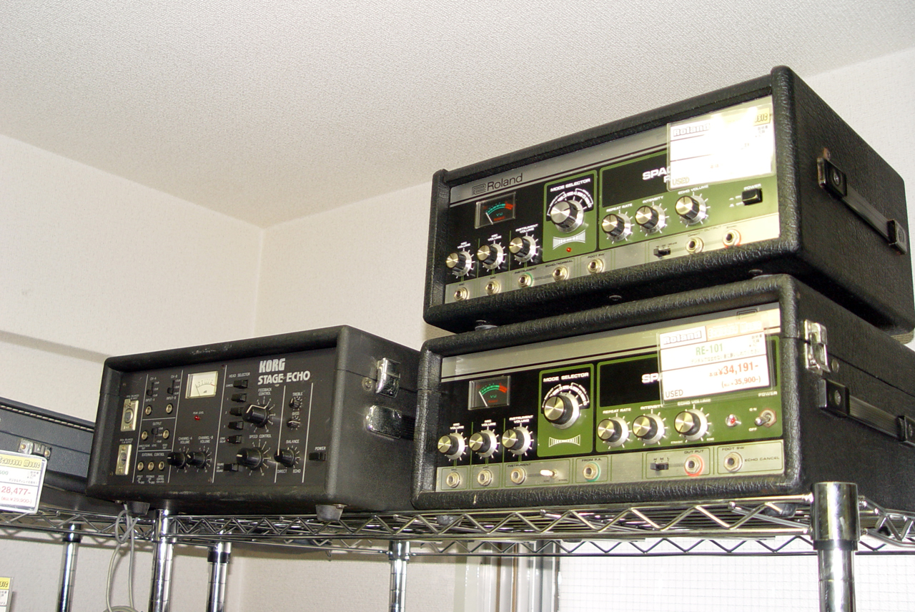 Korg and Roland tape echo boxes seen at Echigoya music in Shibuya. KORG SE-500 Stage Echo Roland RE-150 Space Echo (1979) Roland RE-101 Space Echo